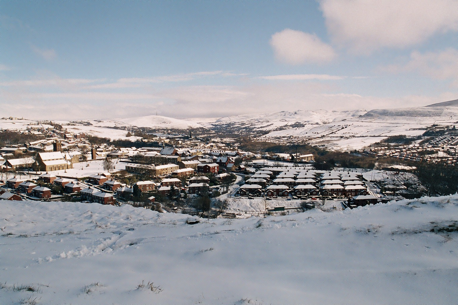 Image of the village of Mossley, Lancs, in the snow. Taken Easter Sunday 2008, when it was really cold.